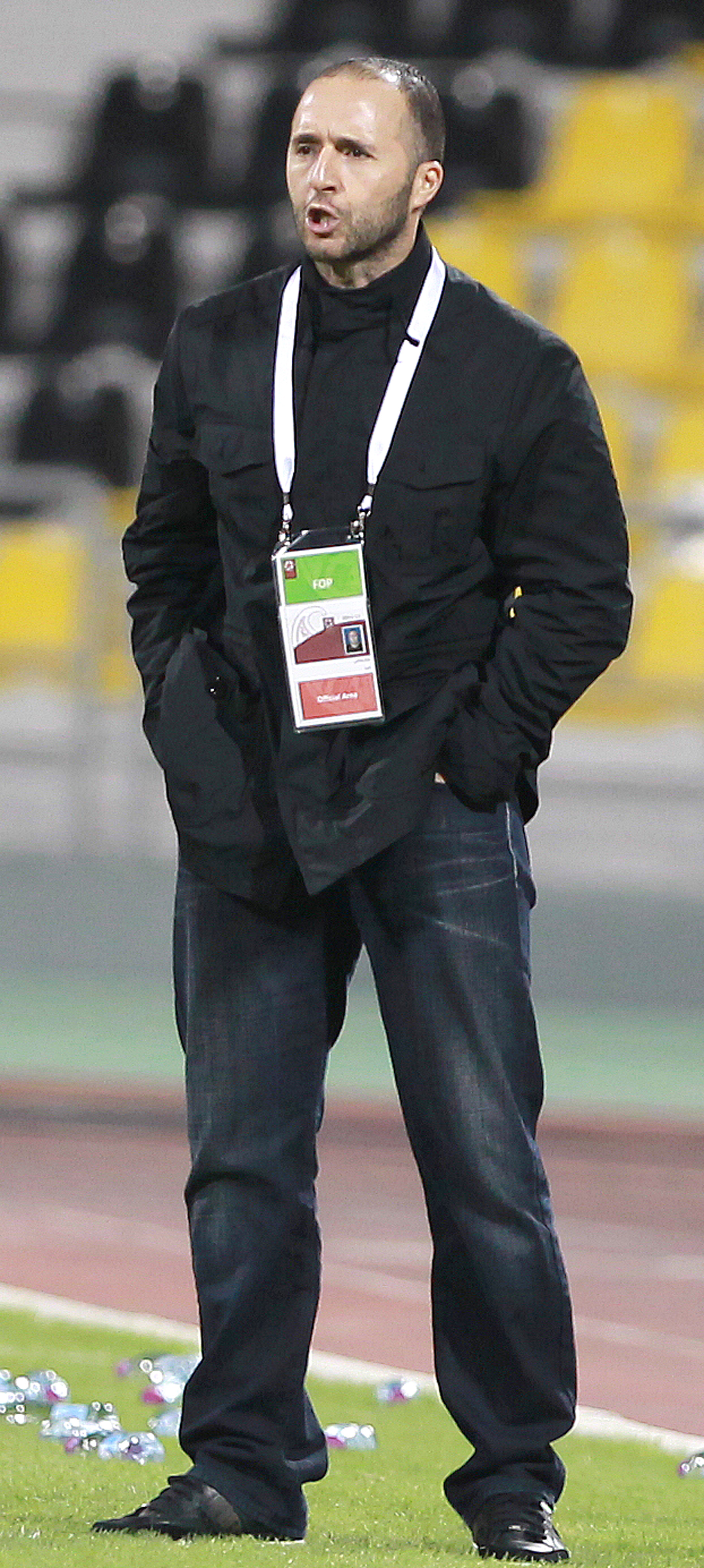 Lekhwiya's Algerian coach Djamel Belmadi shouts instructions to his players during a Qatar Stars League match. Pic by AK Bijuraj